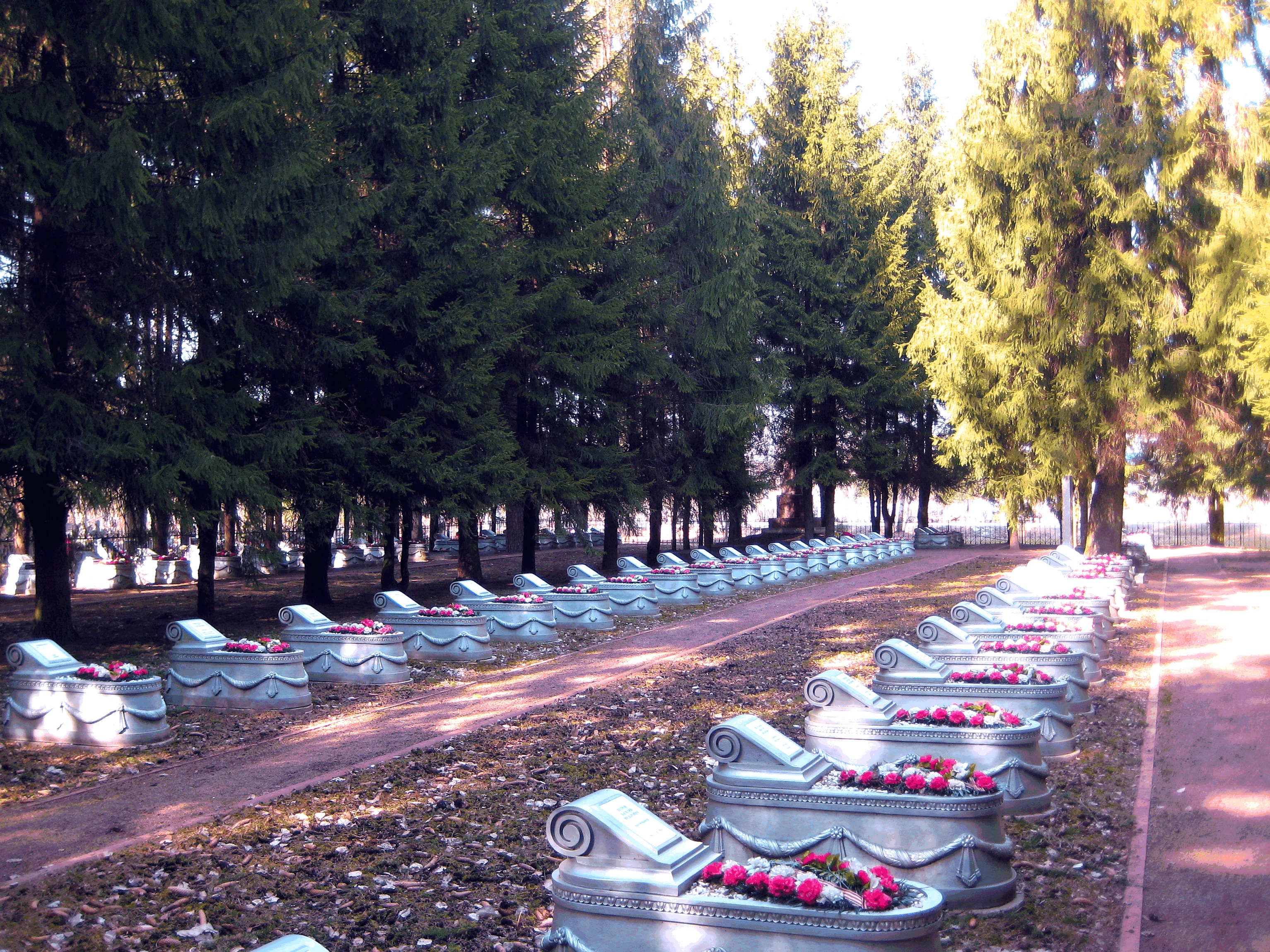 Brotherly burial of Soviet soldiers: Northern Cemetery, Pargolovo, Vyborgsky District, St. Petersburg.